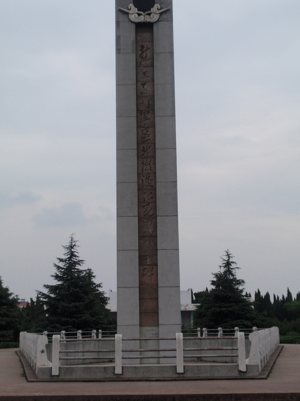 it was taken in the Zhonganlun Museum in the Taixing Park in Taizhou, Jiangsu province